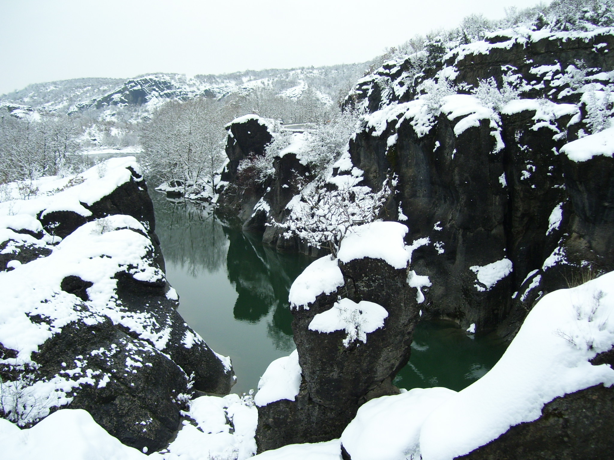 Venetikos river, south of Grevena